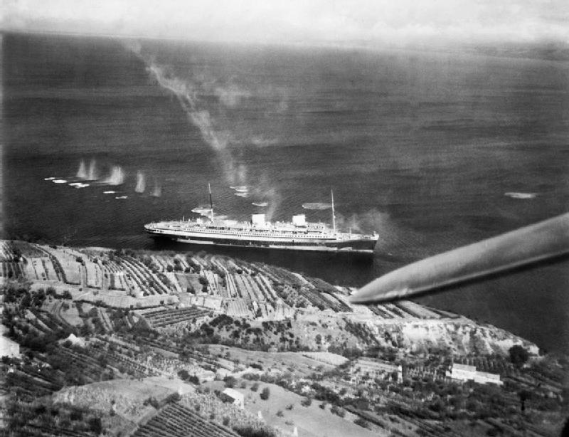 A British Beaufighter aircraft pulls up after attacking the Italian ocean liner Rex with cannon fire and rockets, locaton: coast between Izola and Koper/Capodistria, present day Slovenia